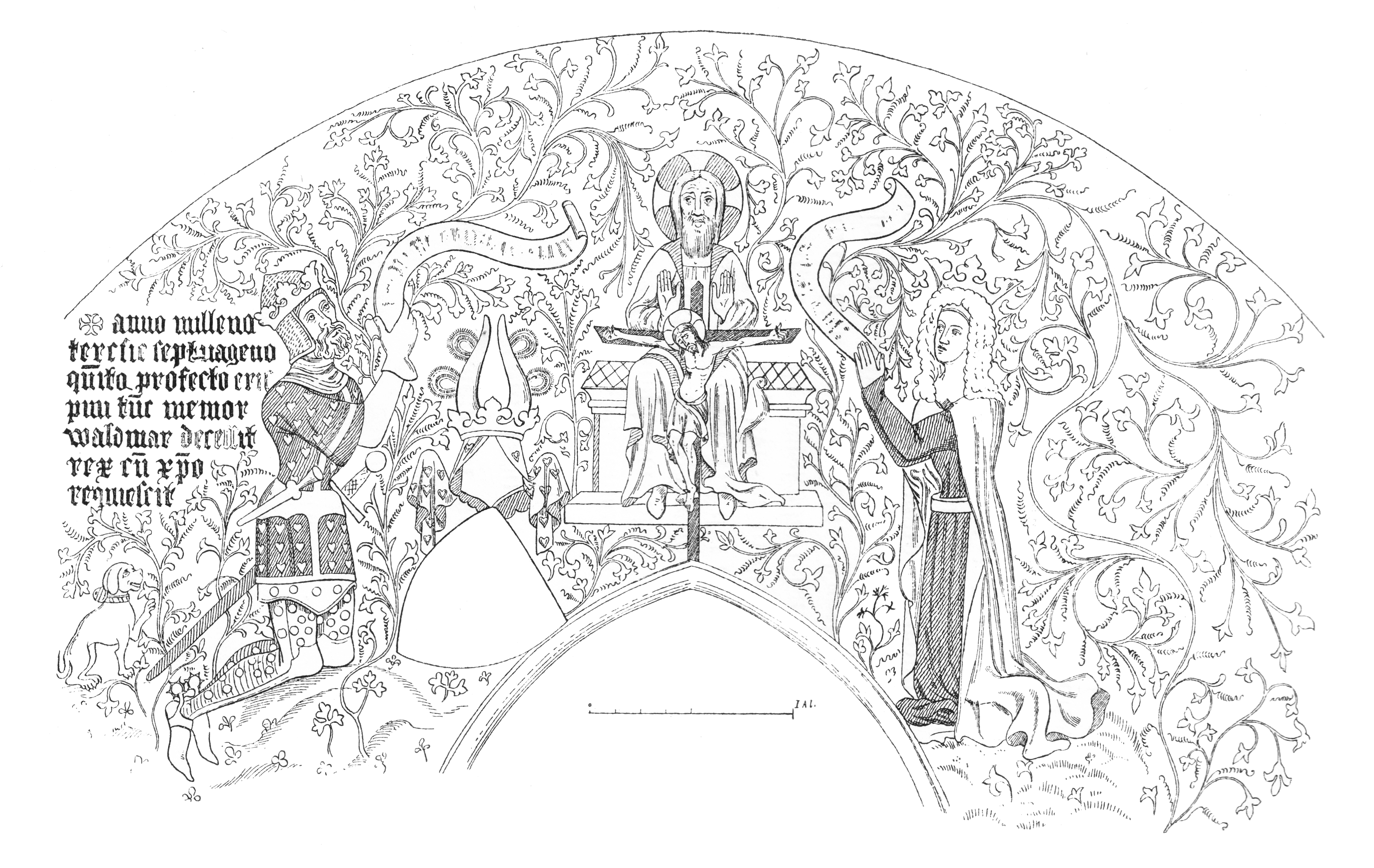 "De gamle Kalkmalerier i vore Kirker" (The old paintings in our churches) 1900 by Julius Magnus Petersen (1827–1917), Ill. 14. The book is digitized at De gamle Kalkmalerier i vore Kirker